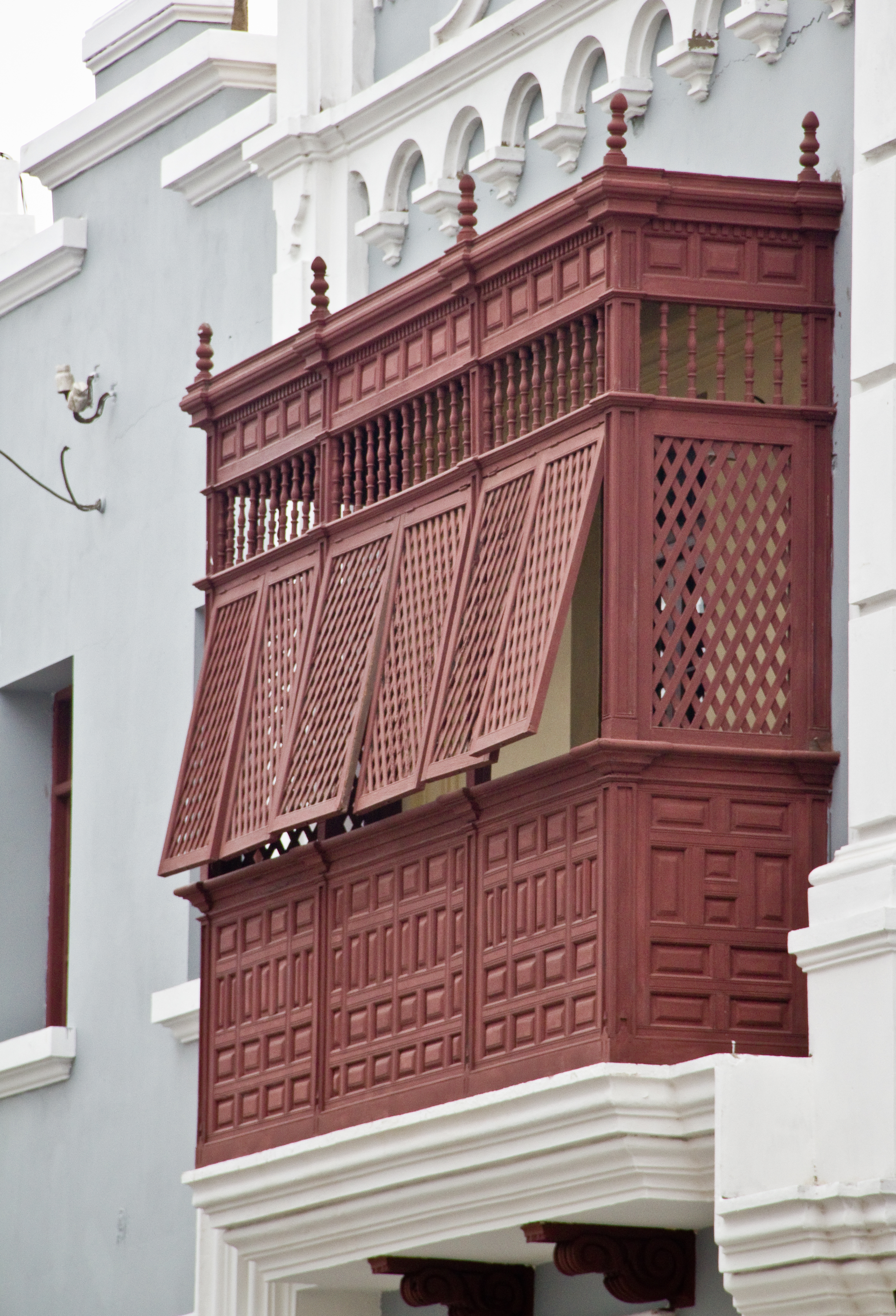 Balcones Paseo Pizarro